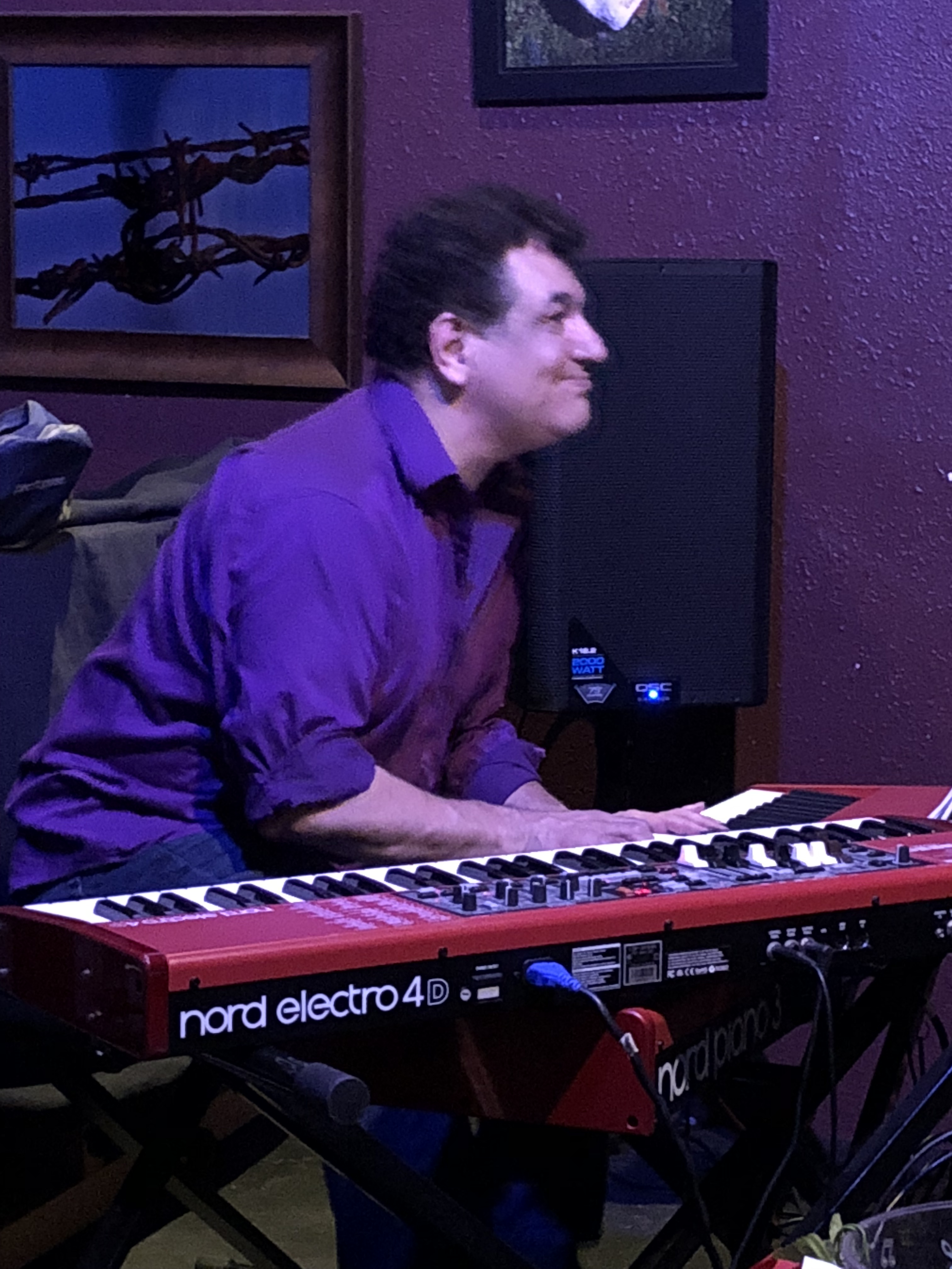 Rubén Valtierra performing with VHS Band at the Speakeasy in Sonoma, California in 2018.